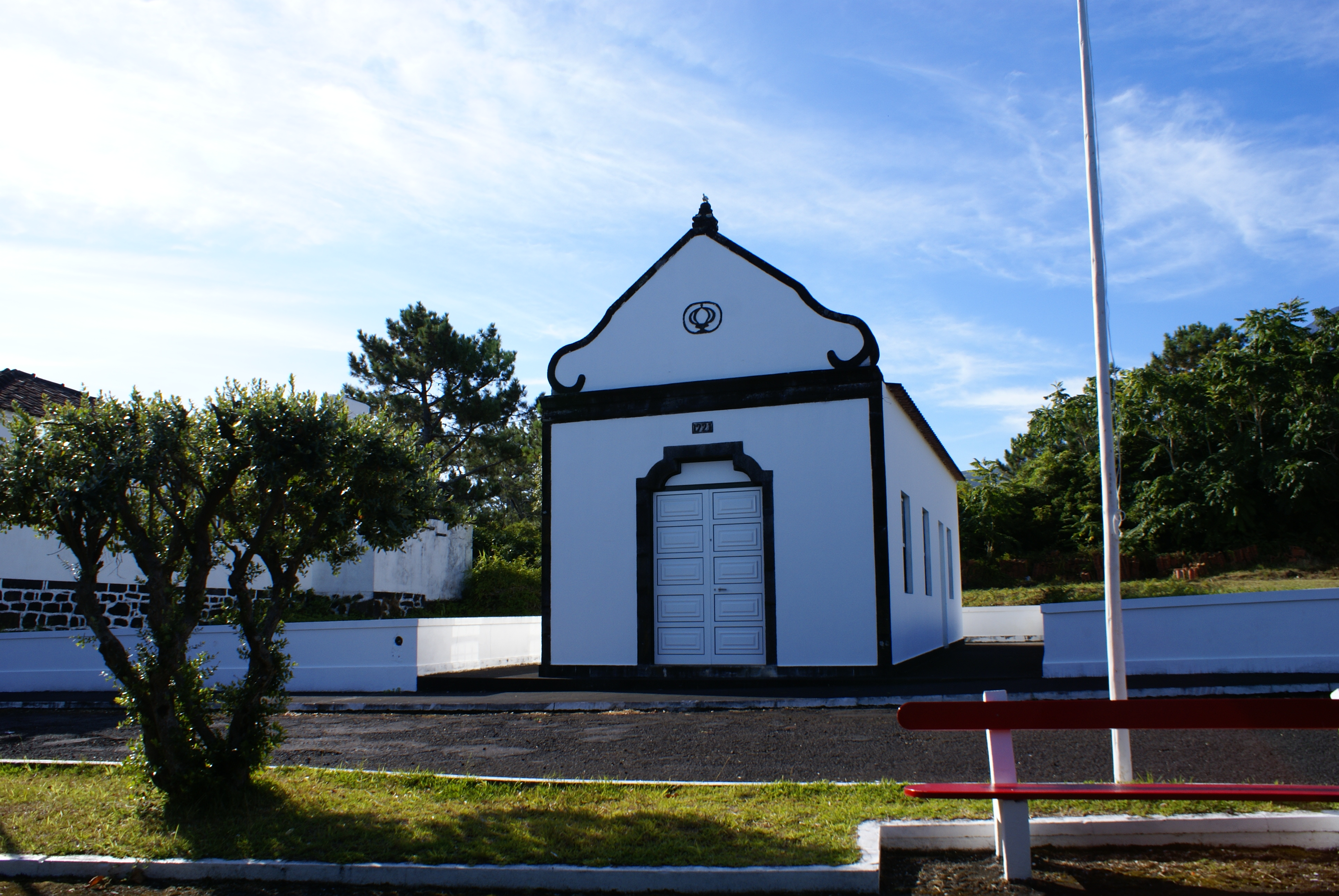 Império do Espírito Santo de Santa Luzia, concelho de São Roque do Pico, ilha do Pico, Açores, Portugal